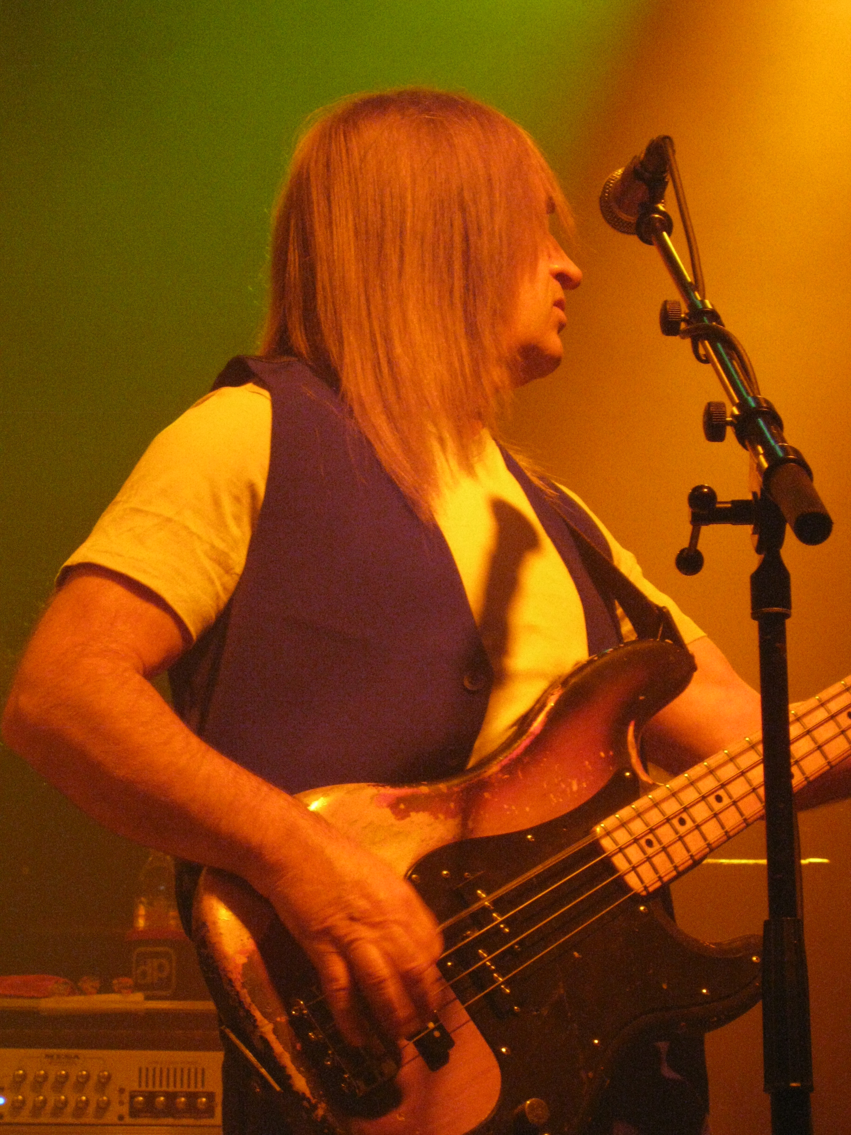 Trevor Bolder playing with Uriah Heep in Tavastia, Finland on 2 November 2008.